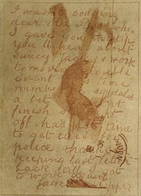 Back of the "Saucy Jacky" postcard